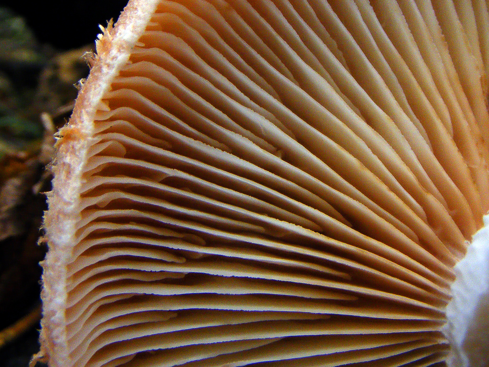 Armillaria ostoyae - hymenophore.